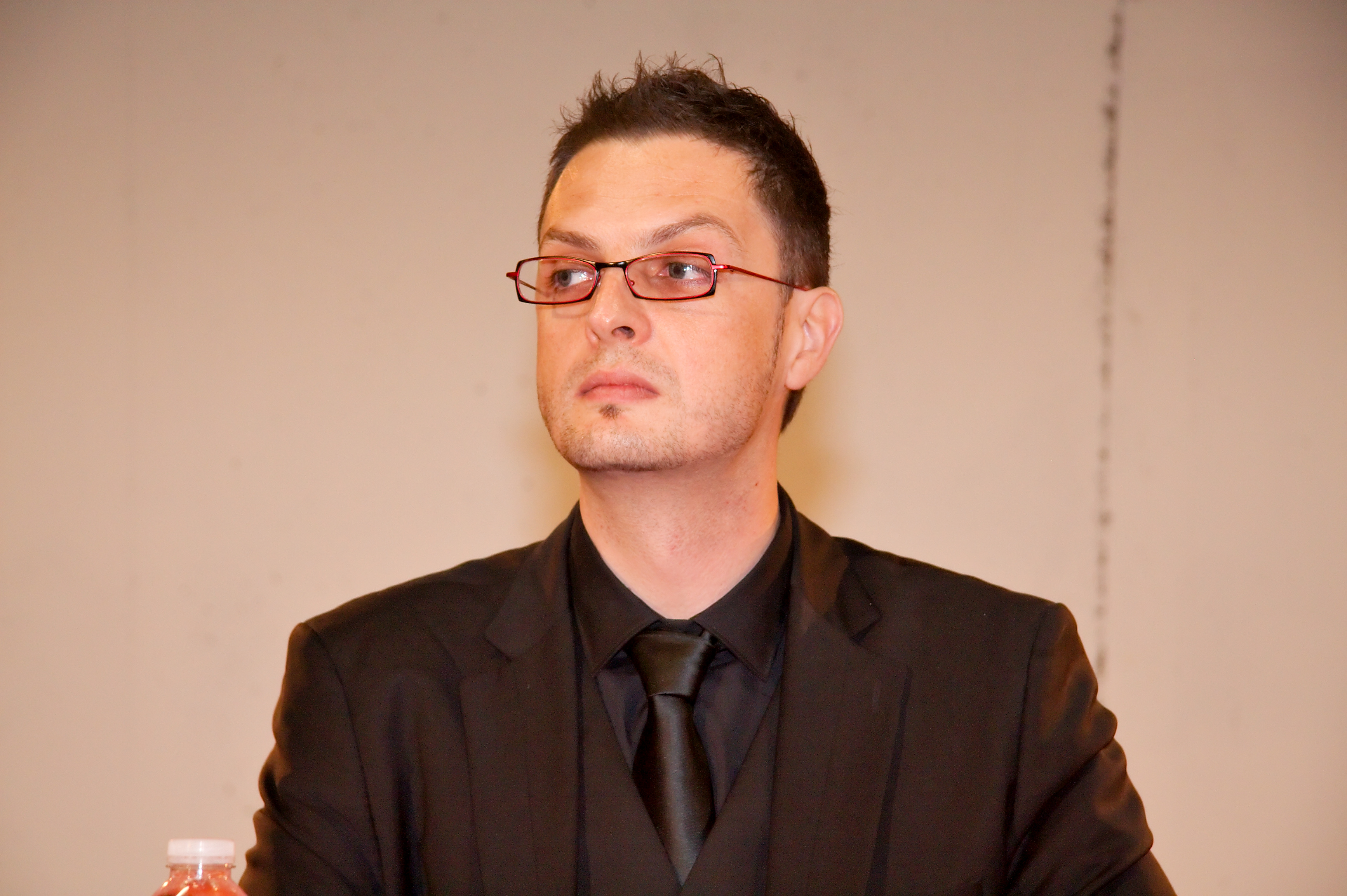 Autograph session with the Flander's Company at Chibi Japan Expo 2008 (Paris, France).